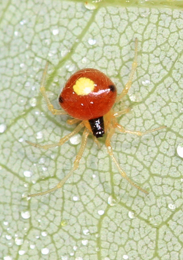 Cobweb Spider - Theridula emertoni, Occoquan Bay National Wildlife Refuge, Woodbridge, Virginia